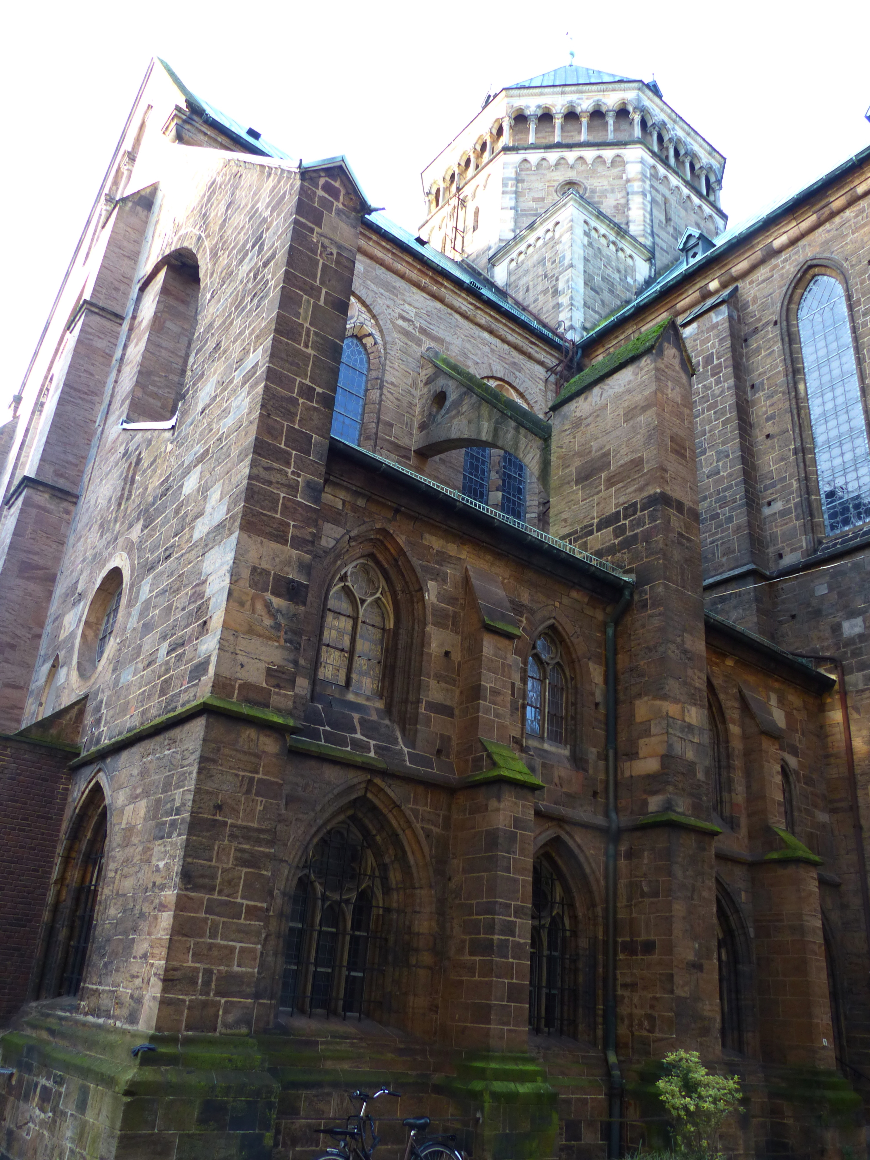 Northeastern chapel, choir and northern transept of Bremen Cathedral